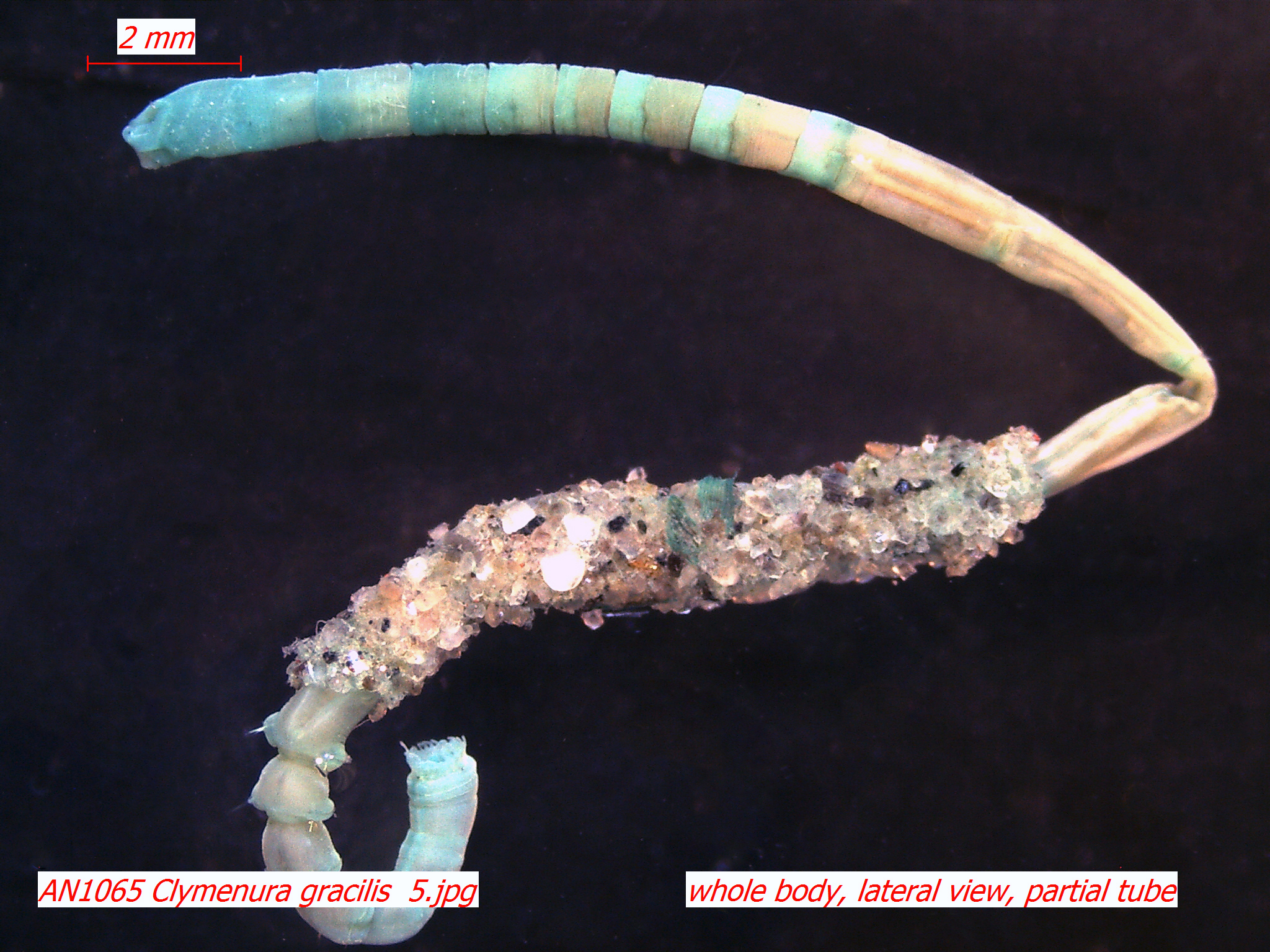 Collected from Puget Sound sediments and photographed by the Washington State Department of Ecology’s Marine Sediment Monitoring Team. For more information about this team’s work visit